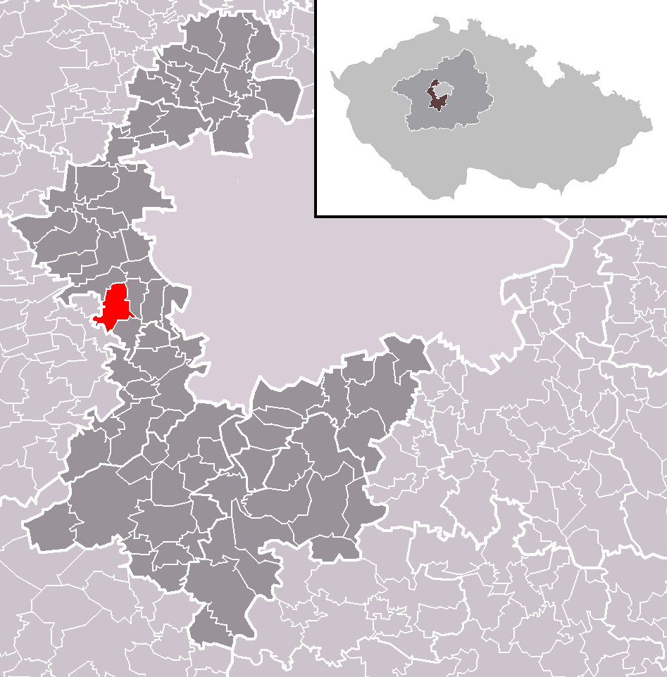 Location of Tachlovice municipality within Prague-West District and administrative area of Černošice as a Municipality with Extended Competence.